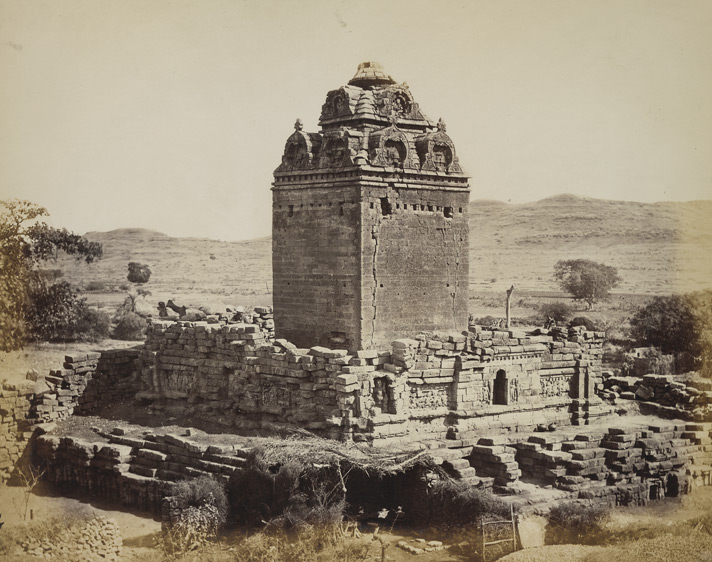 Gop temple, 6th Century, Maitraka period. This ruined temple dates from the 6th Century, Maitraka period and is one of the earliest Hindu temple in Gujarat. The sanctuary is raised a high basement and is covered by a pyramidal roof capped by an amalaka and decorated by 3 large arch-like blind windows. The passageway around the sanctuary and the mandapa that was probably at the front on the east are no longer existing.